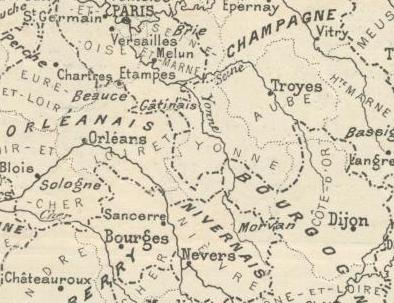 Territorial formation of France (French provinces before 1789)